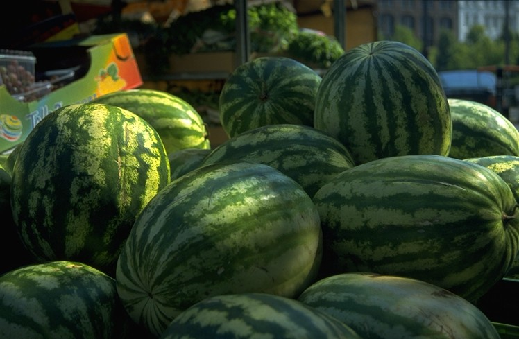 A pile of watermelons near Nørreport station in Copenhagen, Denmark